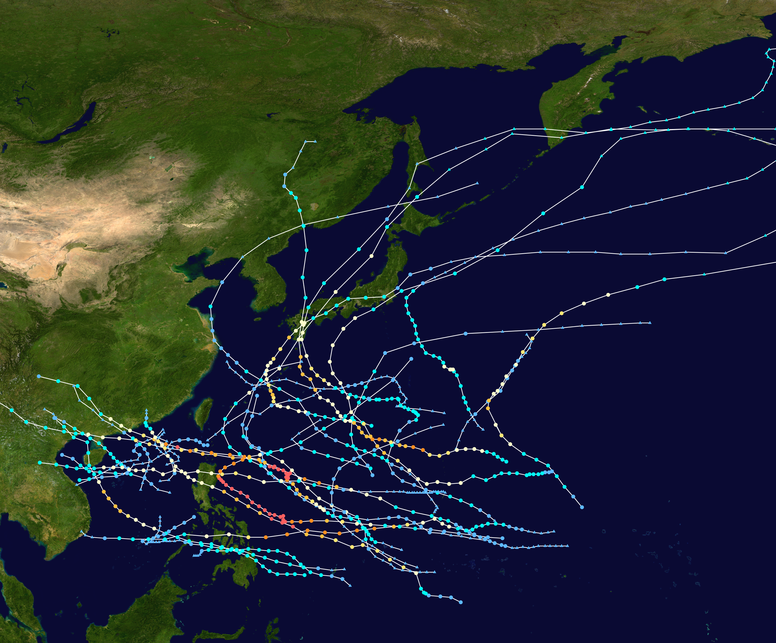 This map shows the tracks of all tropical cyclones in the 1954 Pacific typhoon season. The points show the location of each storm at 6-hour intervals. The colour represents the storm's maximum sustained wind speeds as classified in the Saffir-Simpson Hurricane Scale (see below), and the shape of the data points represent the nature of the storm. Saffir–Simpson hurricane wind scale Tropical depression≤38 mph≤62 km/h Category 3111–129 mph178–208 km/h Tropical storm39–73 mph63–118 km/h Category 4130–156 mph209–251 km/h Category 174–95 mph119–153 km/h Category 5≥157 mph≥252 km/h Category 296–110 mph154–177 km/h Unknown Storm typeTropical cycloneSubtropical cycloneExtratropical cyclone / Remnant low / Tropical disturbance